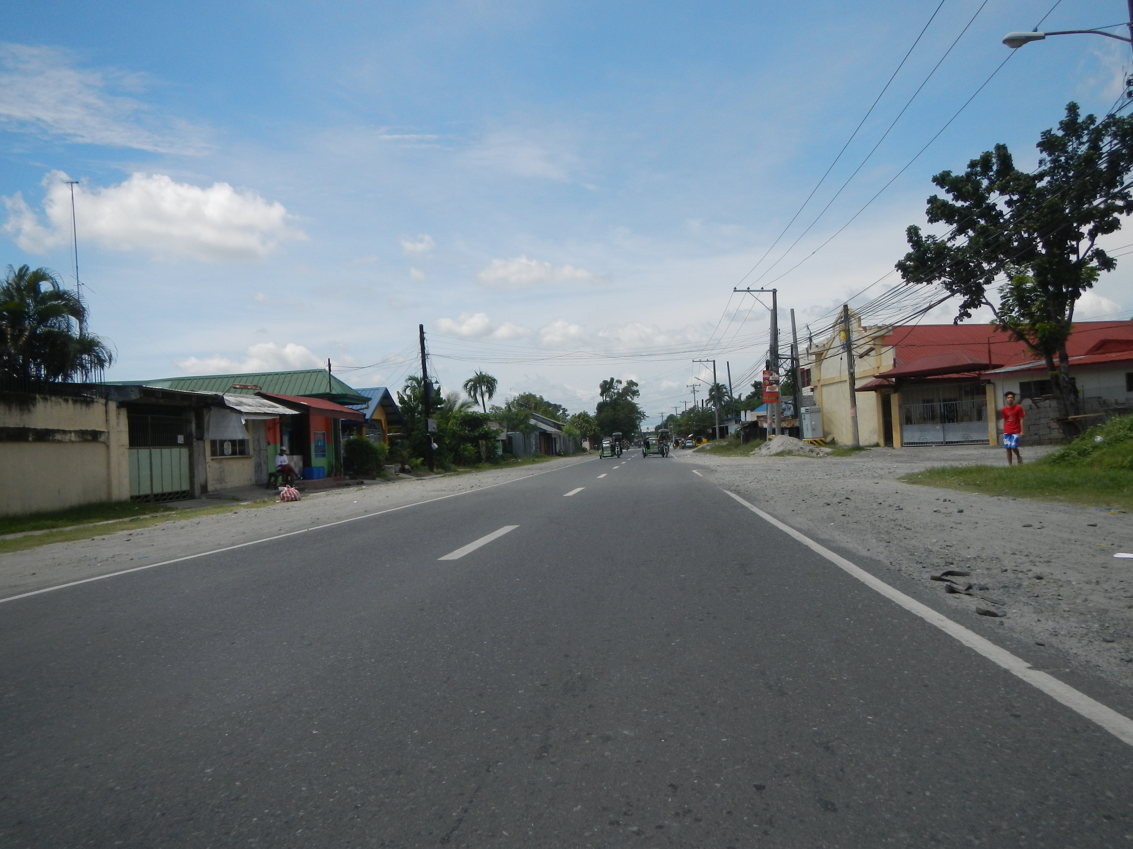 Romulo Highway formerly the National Highway 13, Carlos P. Romulo Romulo Boulevard or Romulo Boulevard (Tarlac City, Tarlac) in Aquino Bridge (Tarlac City) from MacArthur Highway or Manila North Road.